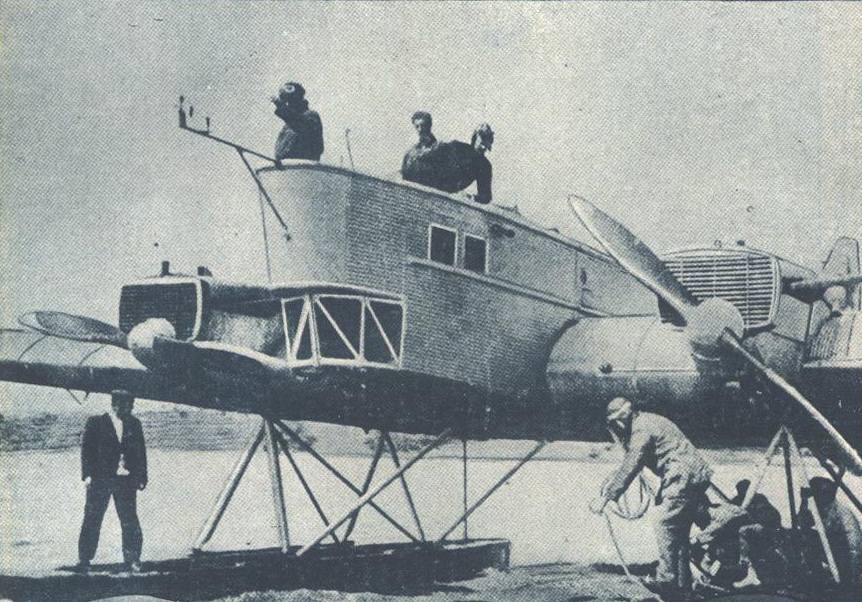 Unarmed civil version of the aircraft ТB-1, named "Strana Sovyetov" (Land of the Soviets) for a flight from Moscow to New York.